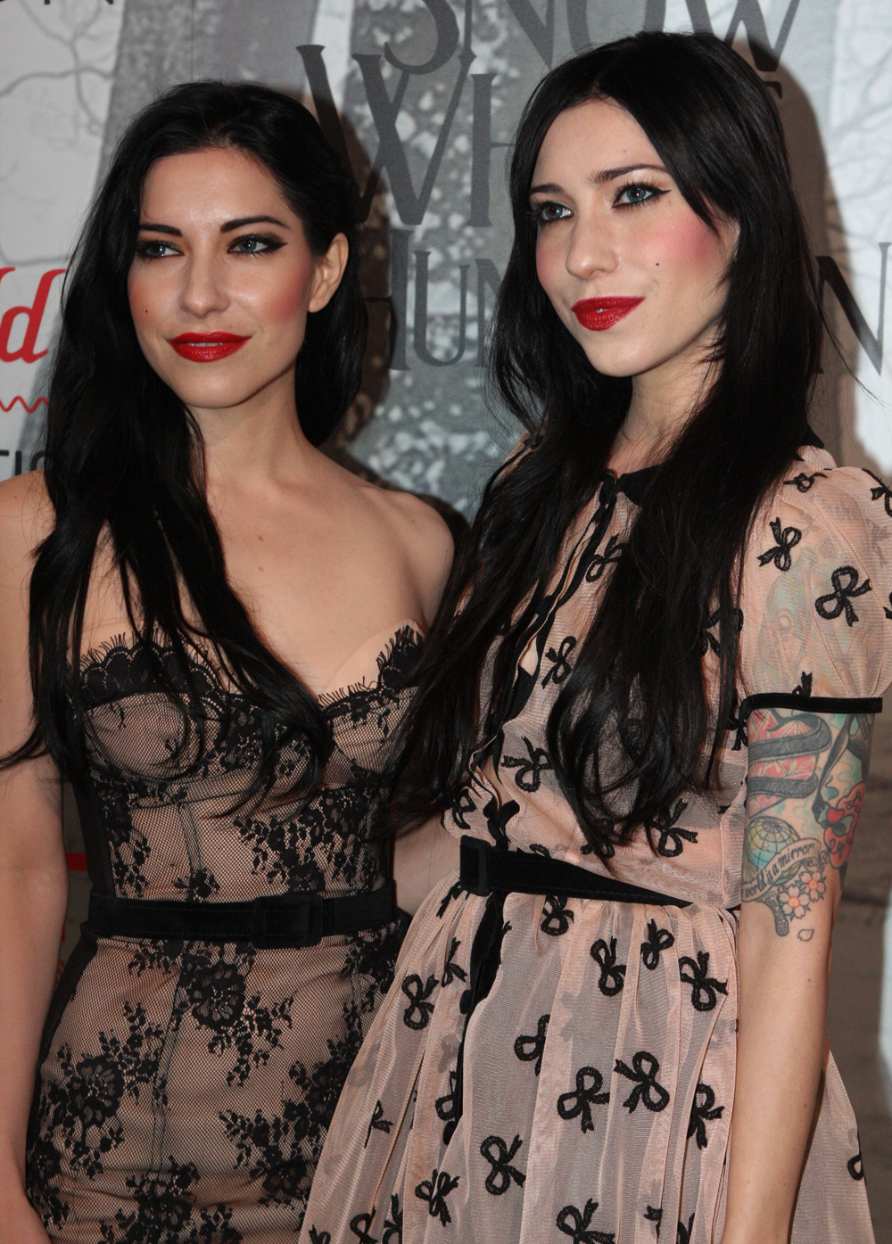 The Veronicas at the Snow White and the Huntsman movie premiere - Bondi Junction, Sydney Australia 2012.